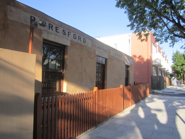 The former Beresford and Oddfellows Inn, which traded as the 'Beresford Arms' from 1840 until 1856, then as 'Oddfellows Arms'. Renovations in 1858 included the provision of flooring. It ceased trading as an inn until 1861 and was sold to a German printer in 1873.